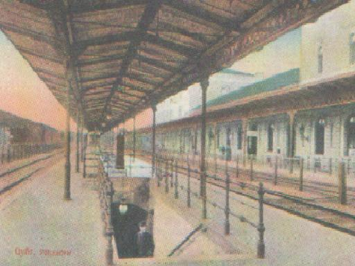 Railway station of Győr, Hungary